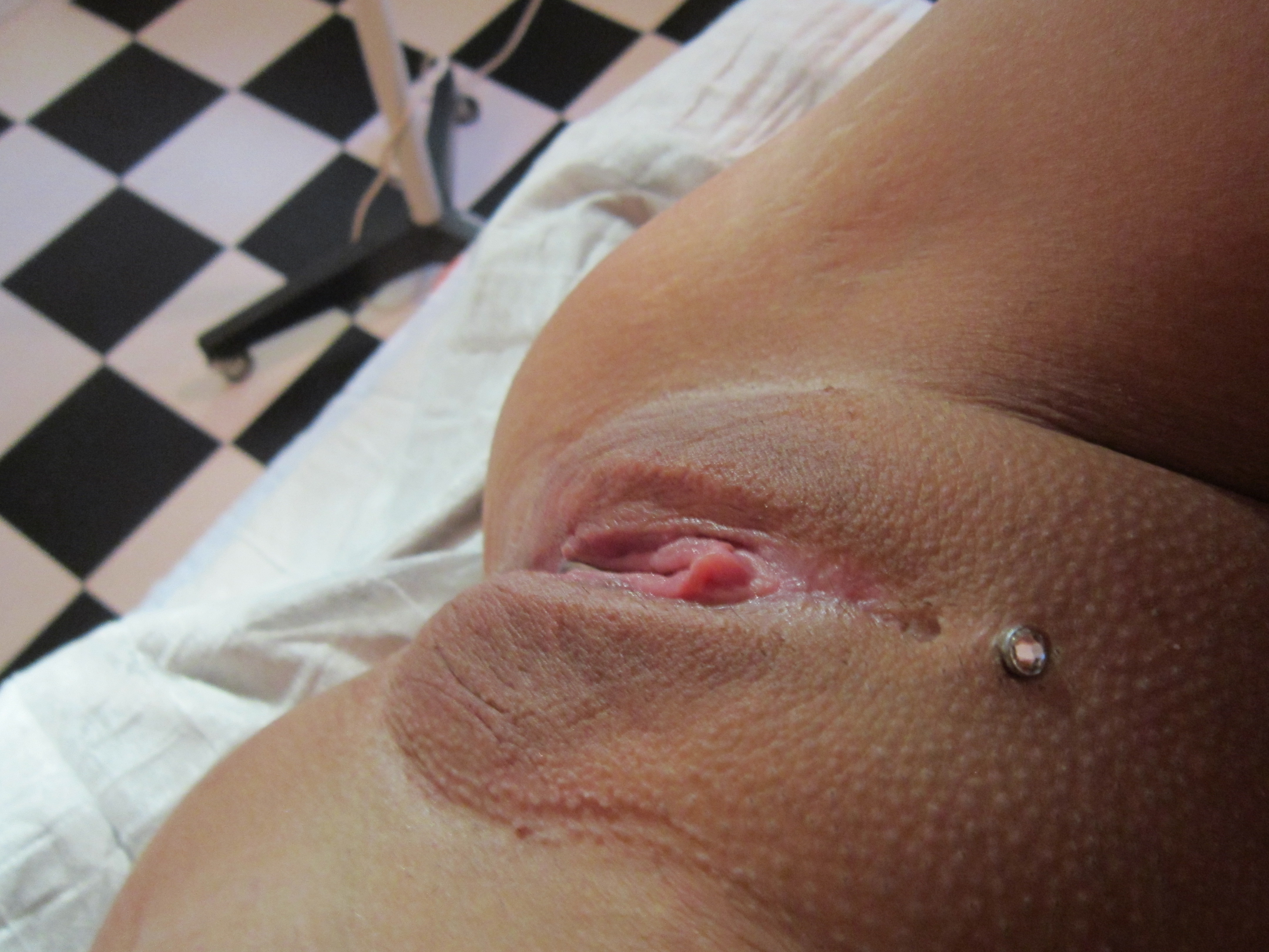 Labiaplasty with clitoral hood reduction and Princess Albertina piercing